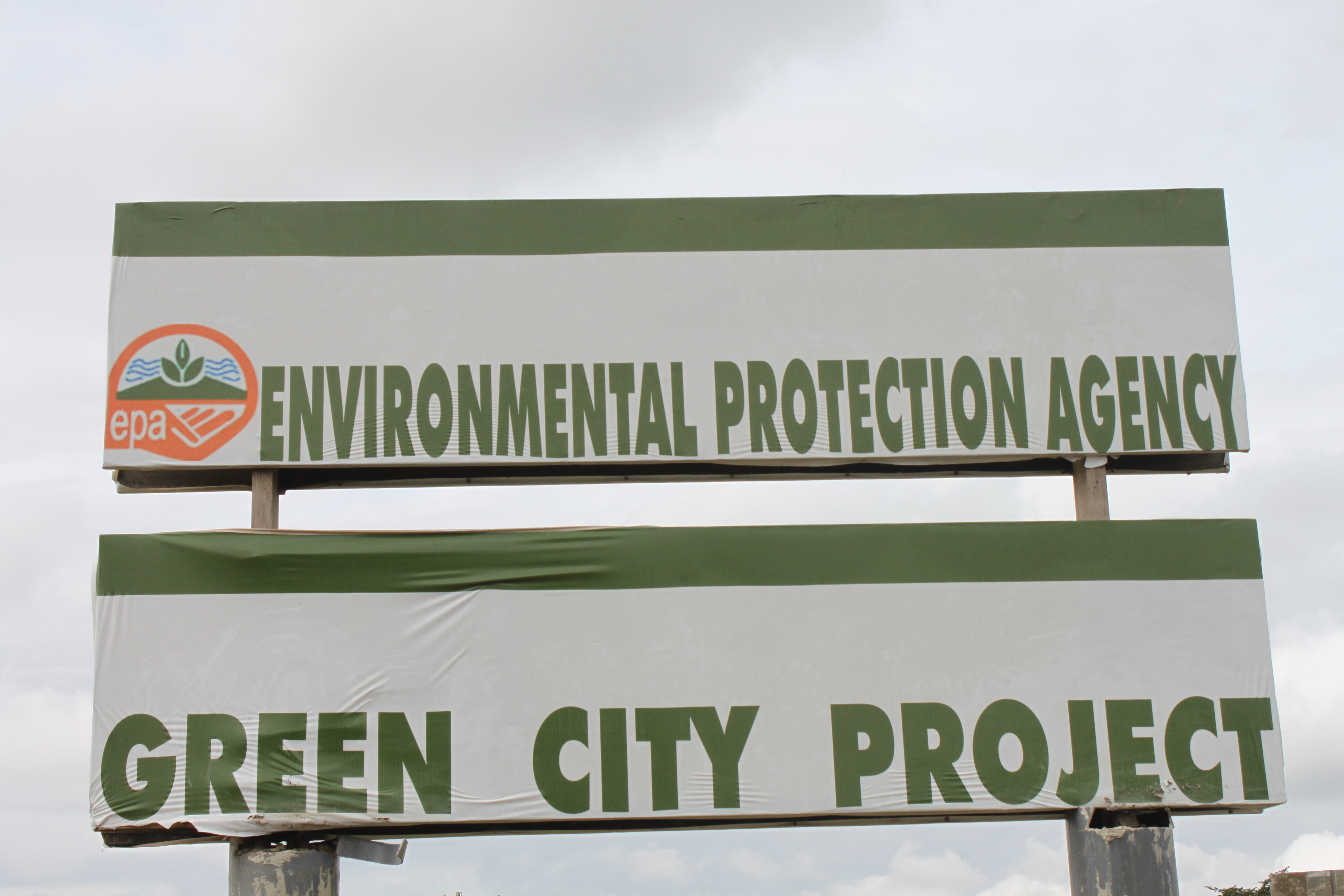 The Green City Project starts